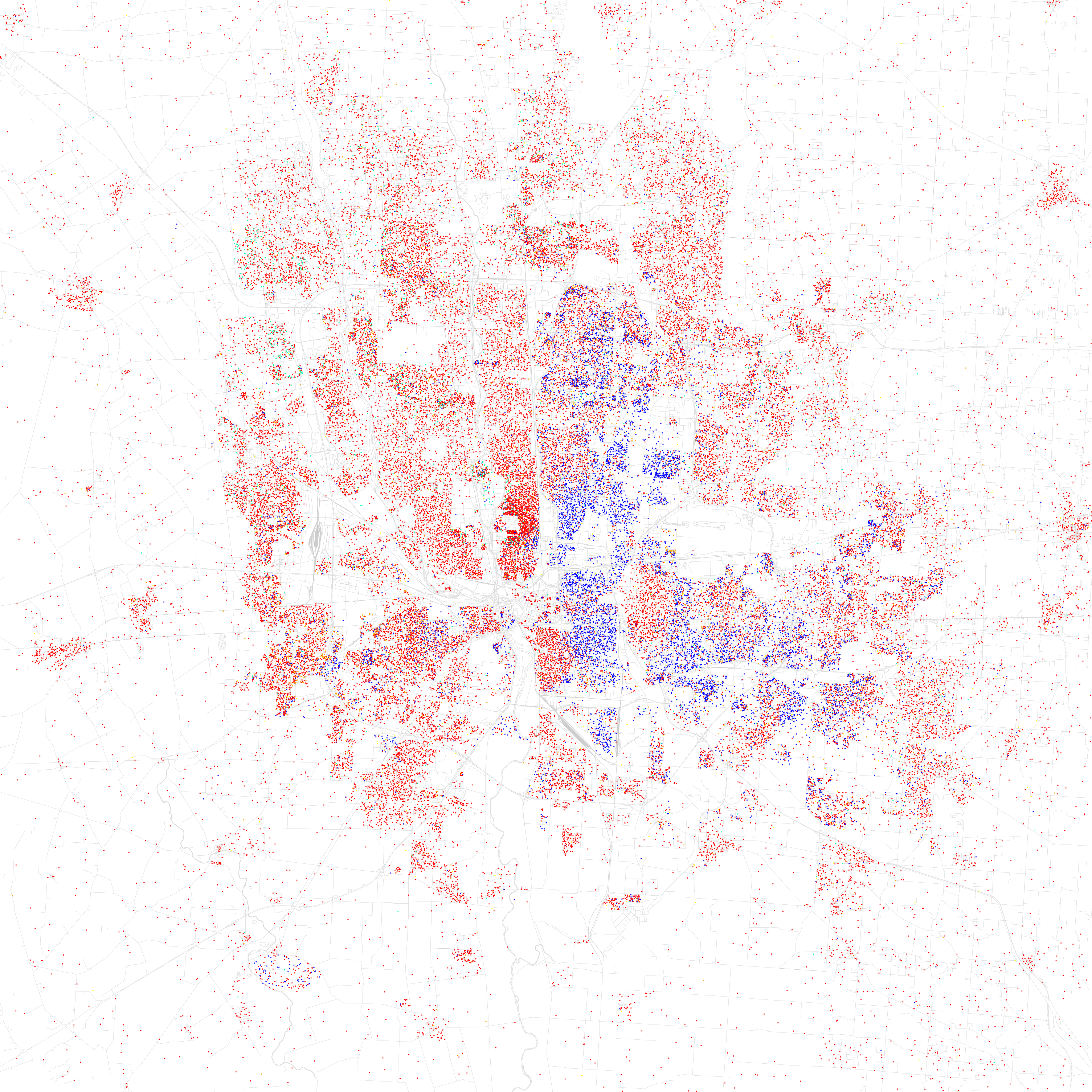 Maps of racial and ethnic divisions in US cities, inspired by Bill Rankin's map of Chicago, updated for Census 2010. Red is White, Blue is Black, Green is Asian, Orange is Hispanic, Yellow is Other, and each dot is 25 residents. Data from Census 2010. Base map © OpenStreetMap, CC-BY-SA